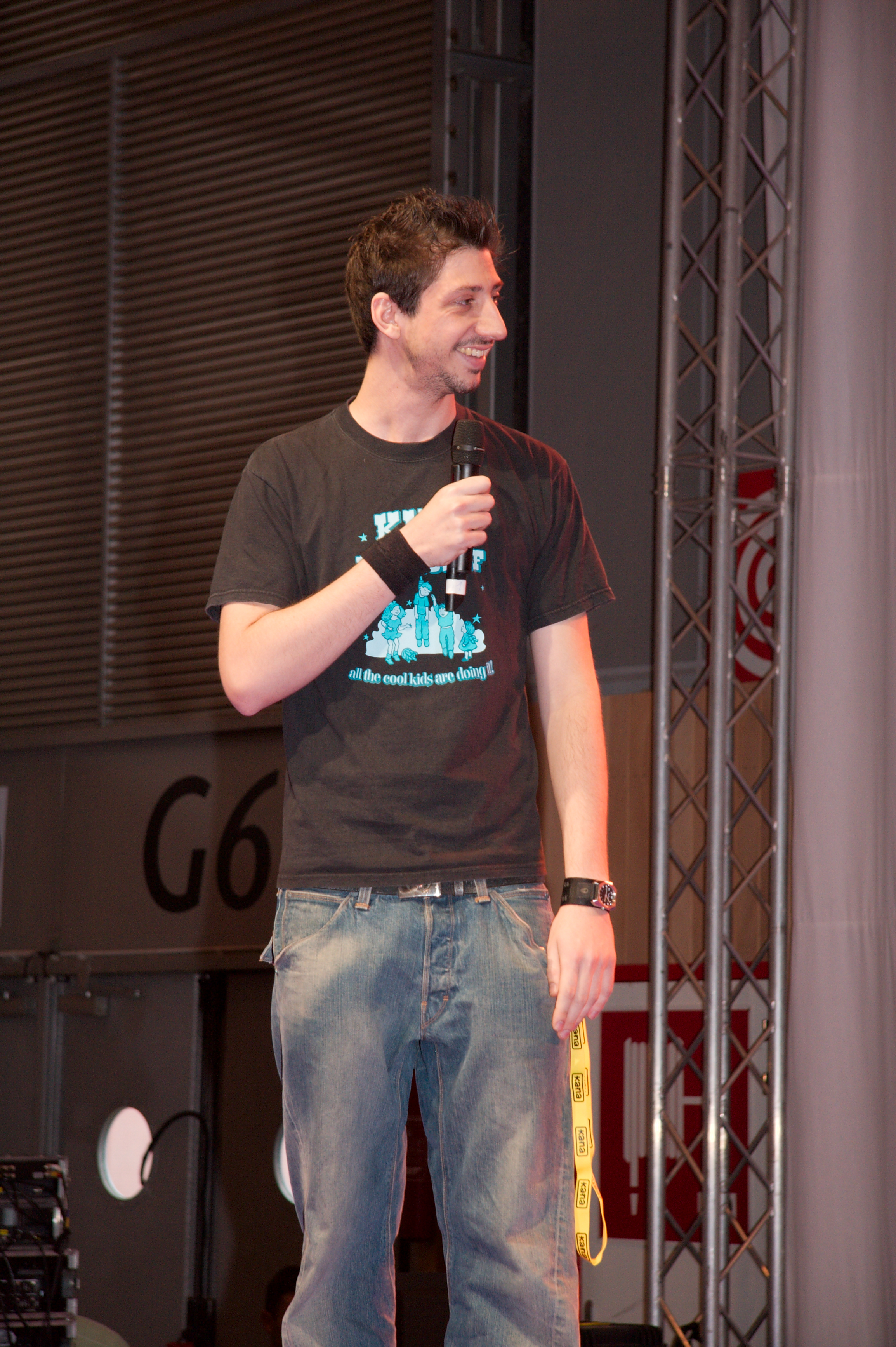 Presentation of the Nerdz TV show by Didier Richard, Monsieur Poulpe and Davy Mourier at Chibi Japan Expo 2007 (Paris, France).